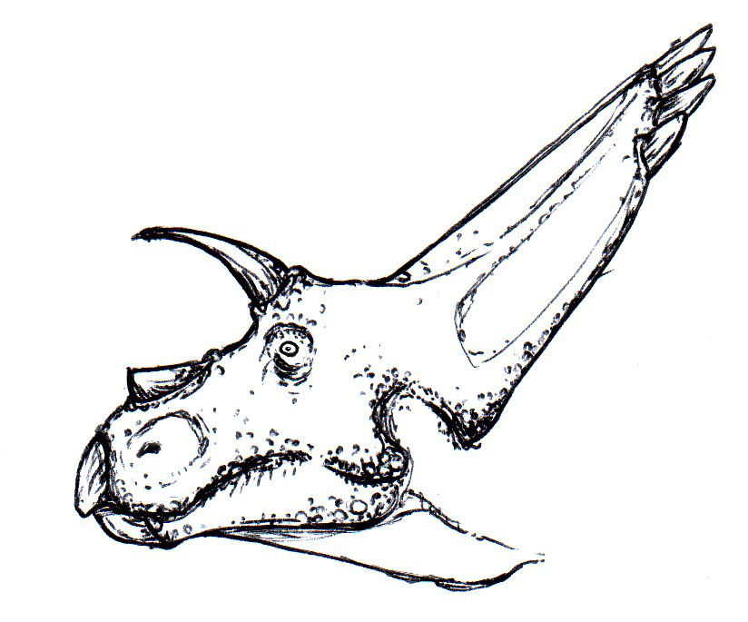 Arrhinoceratops